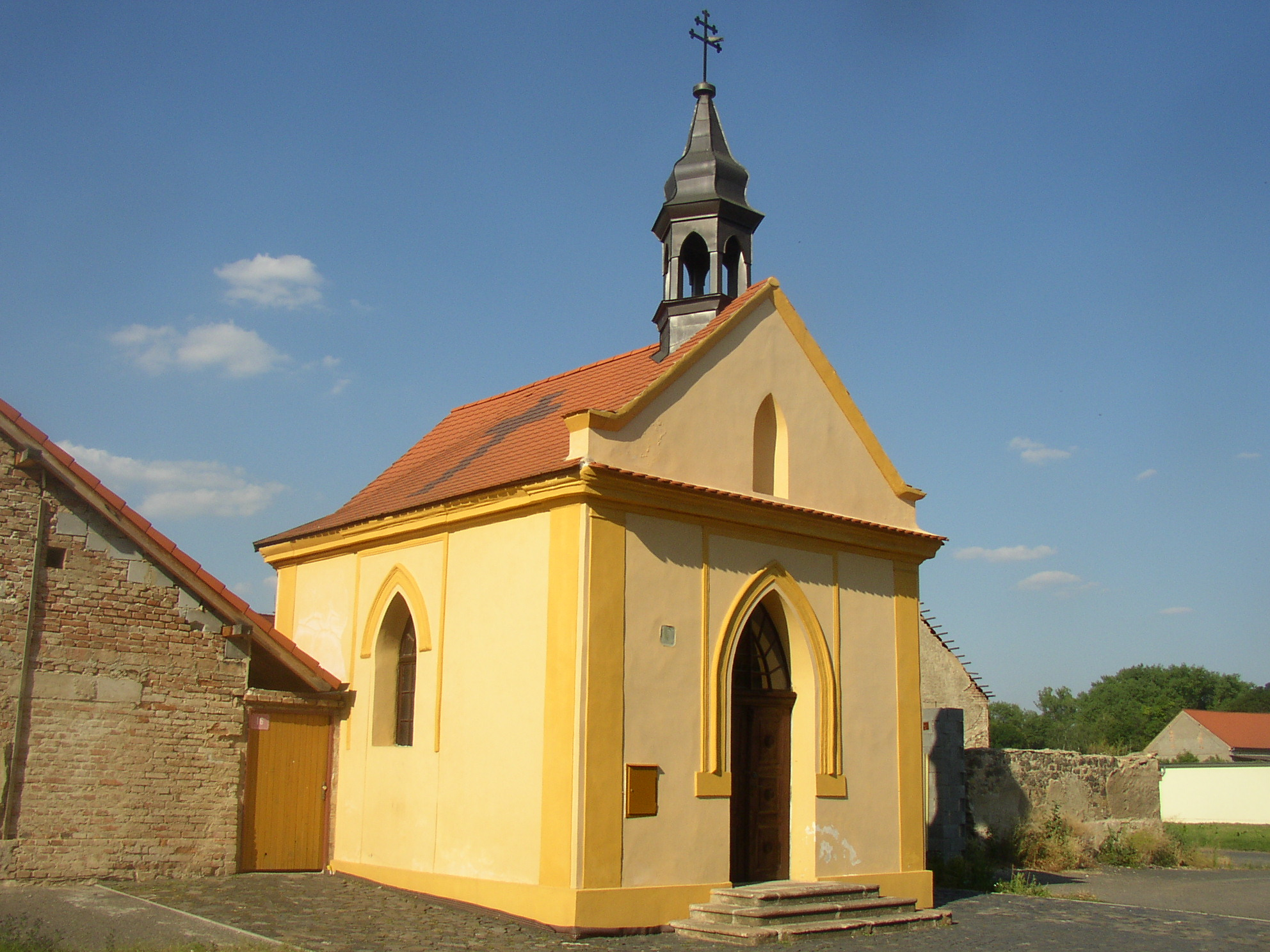 Brňany, Litoměřice District. Chapel of Our Lady of Sorrows and St John Nepomucene in the village. Originally a Baroque edifice from 1720s, rebuilt in style of Gothic Revival in 19th century.